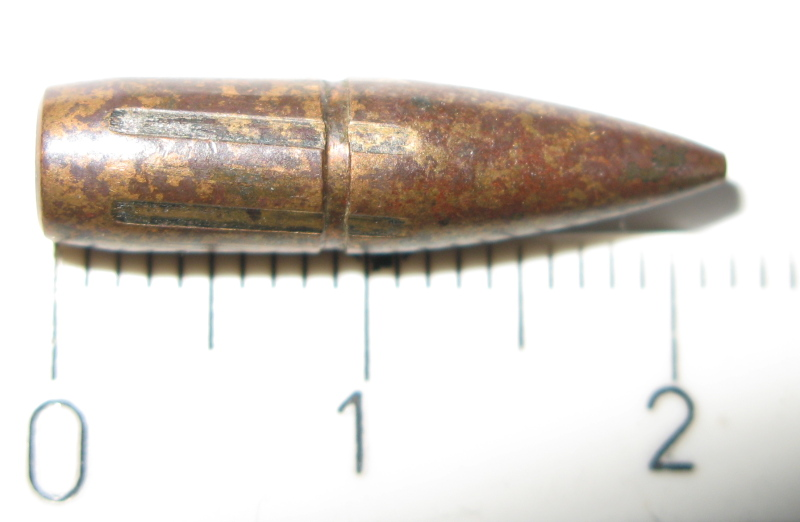 A 5.66x45mm (.223 rem.) boat tailed FMJ spitzer bullet laying on a ruler with a scale in centimeter. Fired from a Sig 550, the grooves of the barrel are well visible. It was found on a Gun range (hence the corrosion) in switzerland.